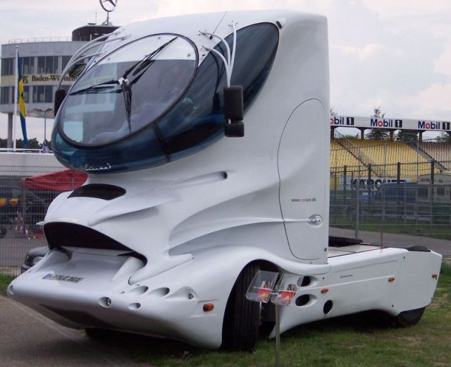 Colani Truck